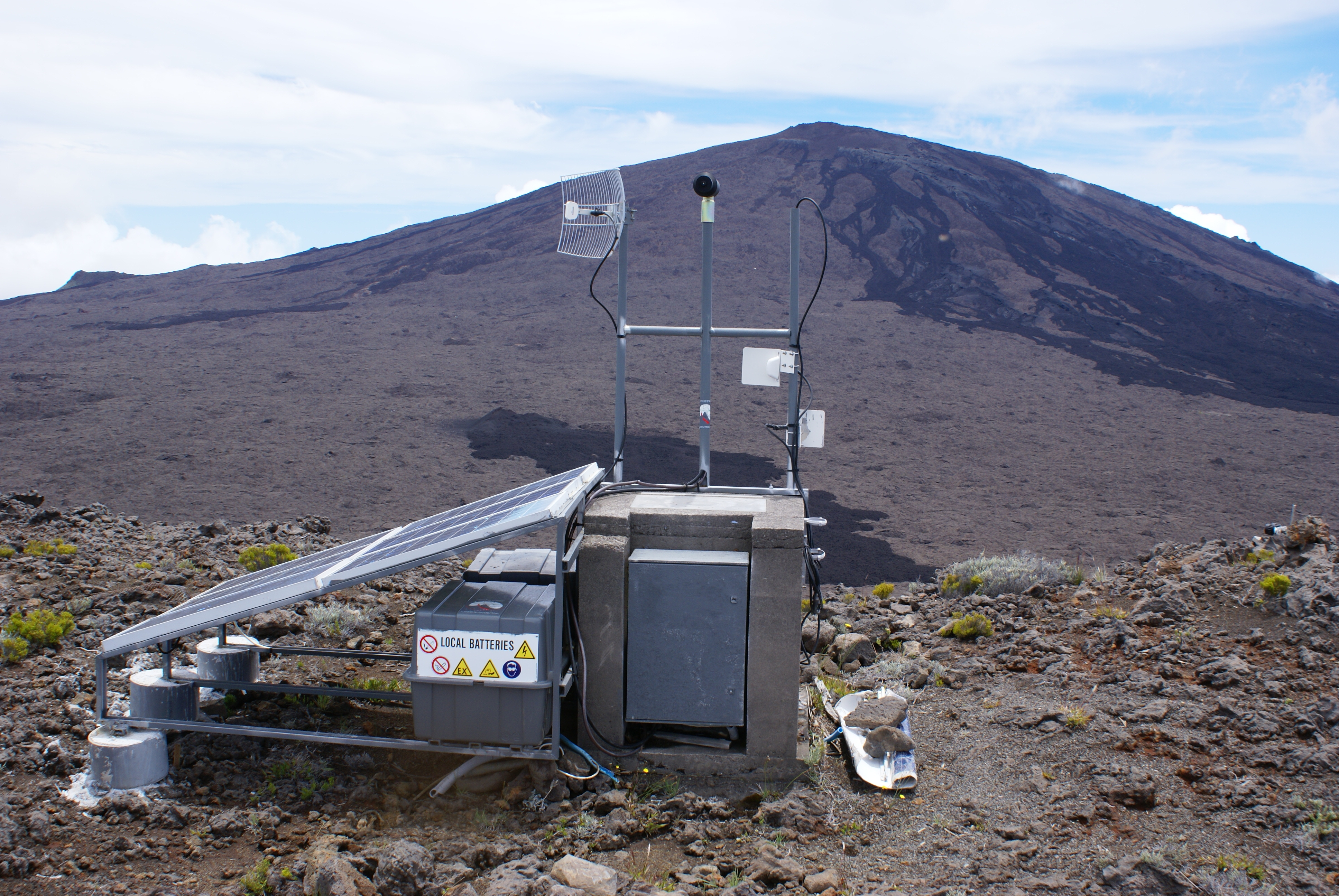 Monitoring station (differential GPS) used by the volcanologic observatory to watch the deformations of the Piton de la Fournaise volcano, on Réunion island